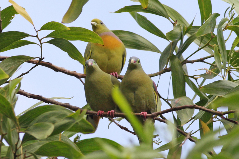 Nai Yang, Phuket Thick-billed Green Pigeon (Treron curvirostra) Orange-breasted Green Pigeon (Treron bicinctus)